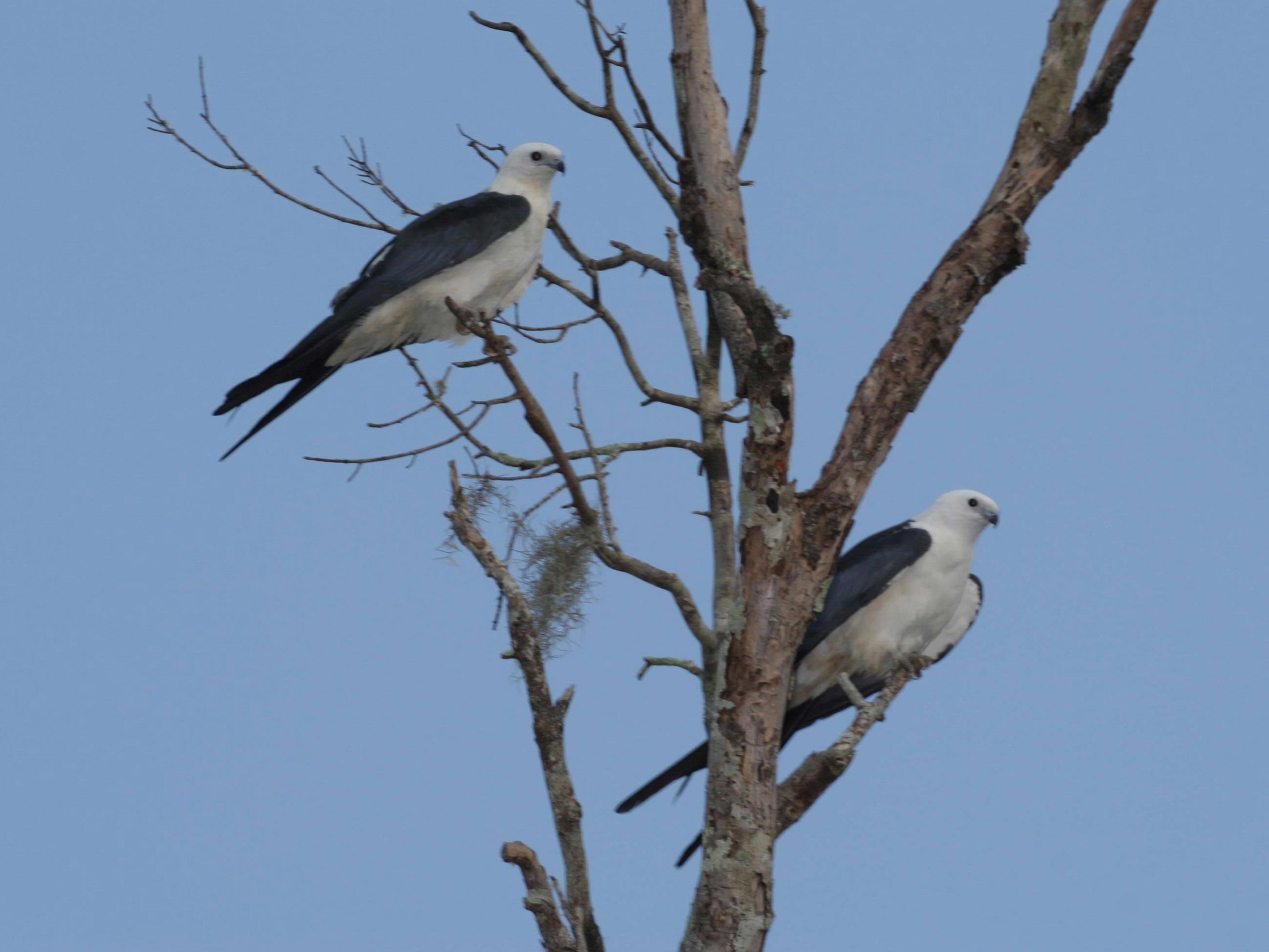 Two Swallow-tailed Kites in a dead tree above a waterway connected to the St. Johns River in central Florida. This photo was taken early in the morning before these and the other 600 kites in this roost area took flight for the day. This picture was taken the last week of July as the kites gather to fly south to Brazil each summer from Florida.